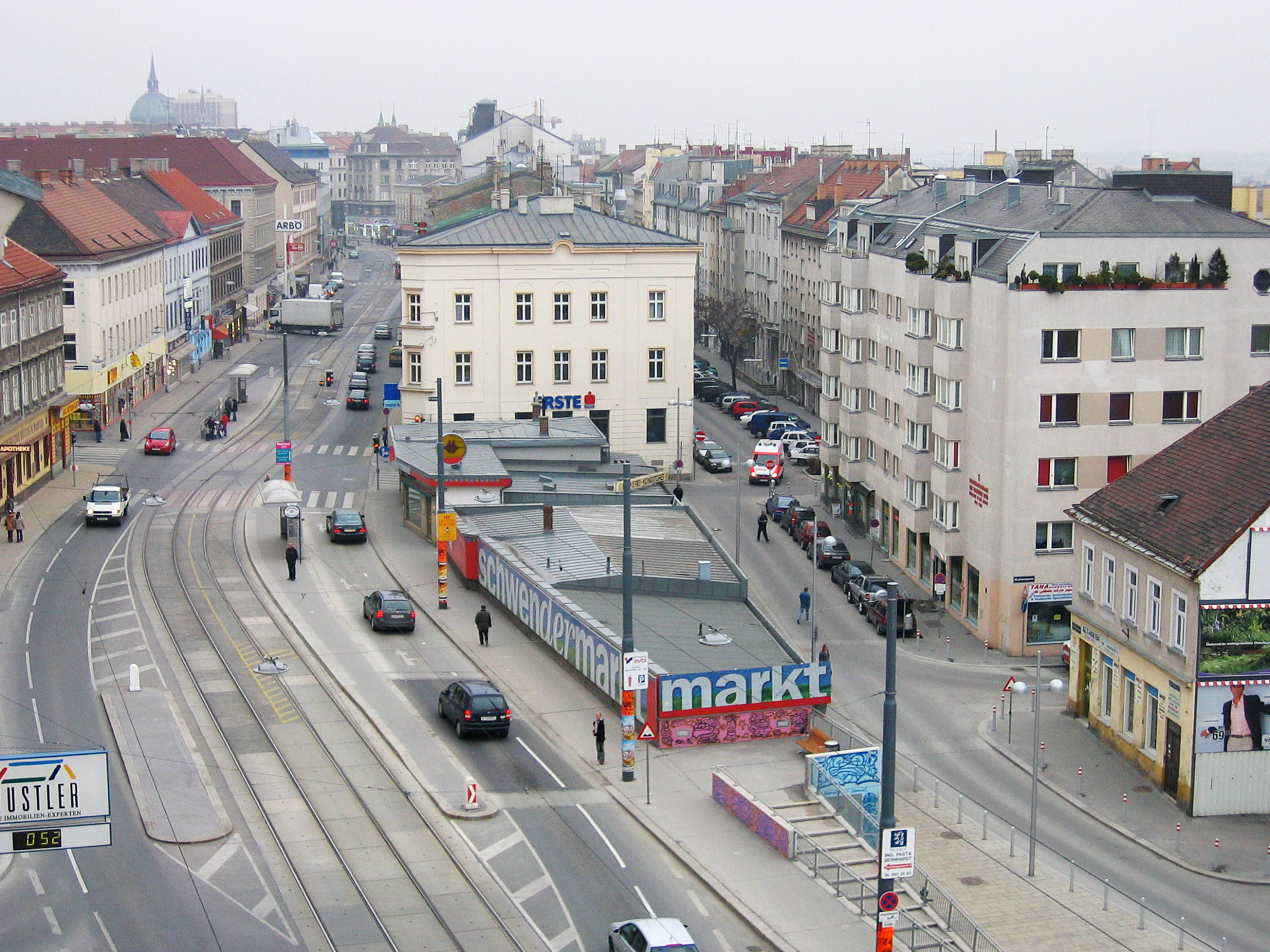 Schwendermarkt and outer Mariahilferstraße from above.